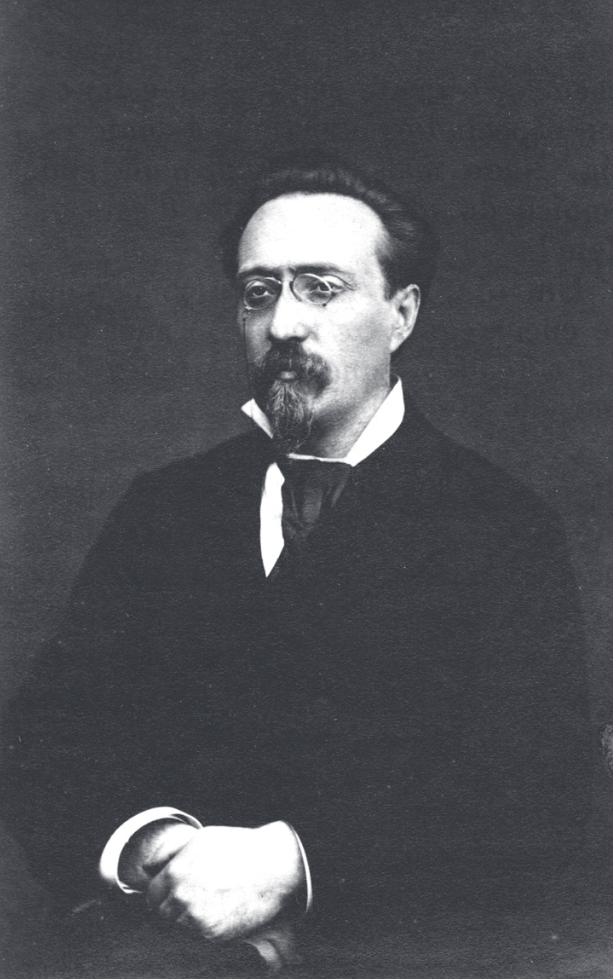 Manuel de Arriaga in 1882.